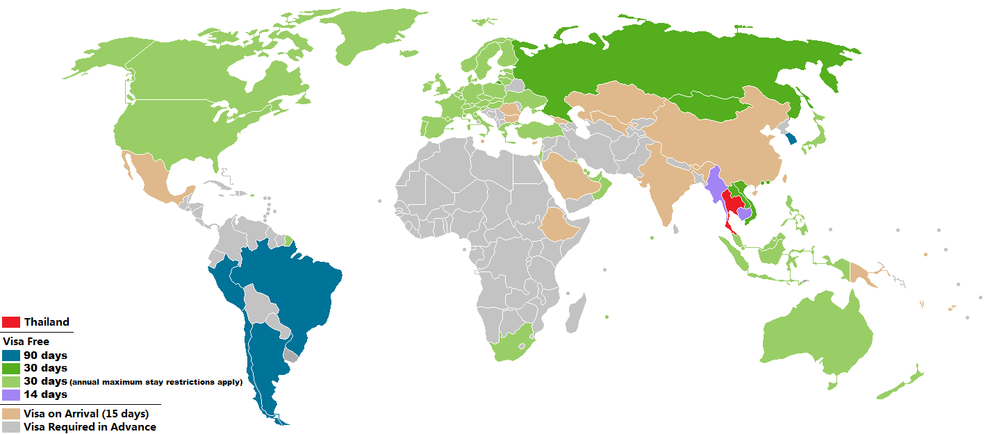 Visa policy of Thailand Thailand Visa-free (90 days) Visa-free (30 days) Visa-free (30 days with annual maximum stay restrictions) Visa-free (14days) Visa on arrival (15 days) Visa required in advance